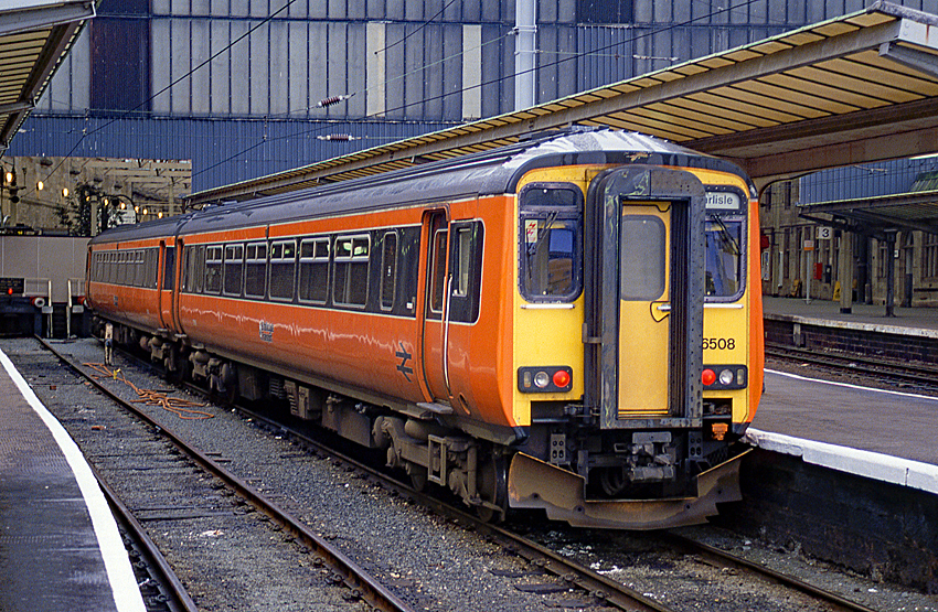 BR class 156 156508 consisting of vehicles 52508+57508 in Strathclyde PTE livery at Carlisle Citadel. Scanned from a Fujichrome 35mm slide.